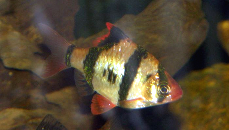 A photograph of the Tiger barb (Puntius tetrazona).